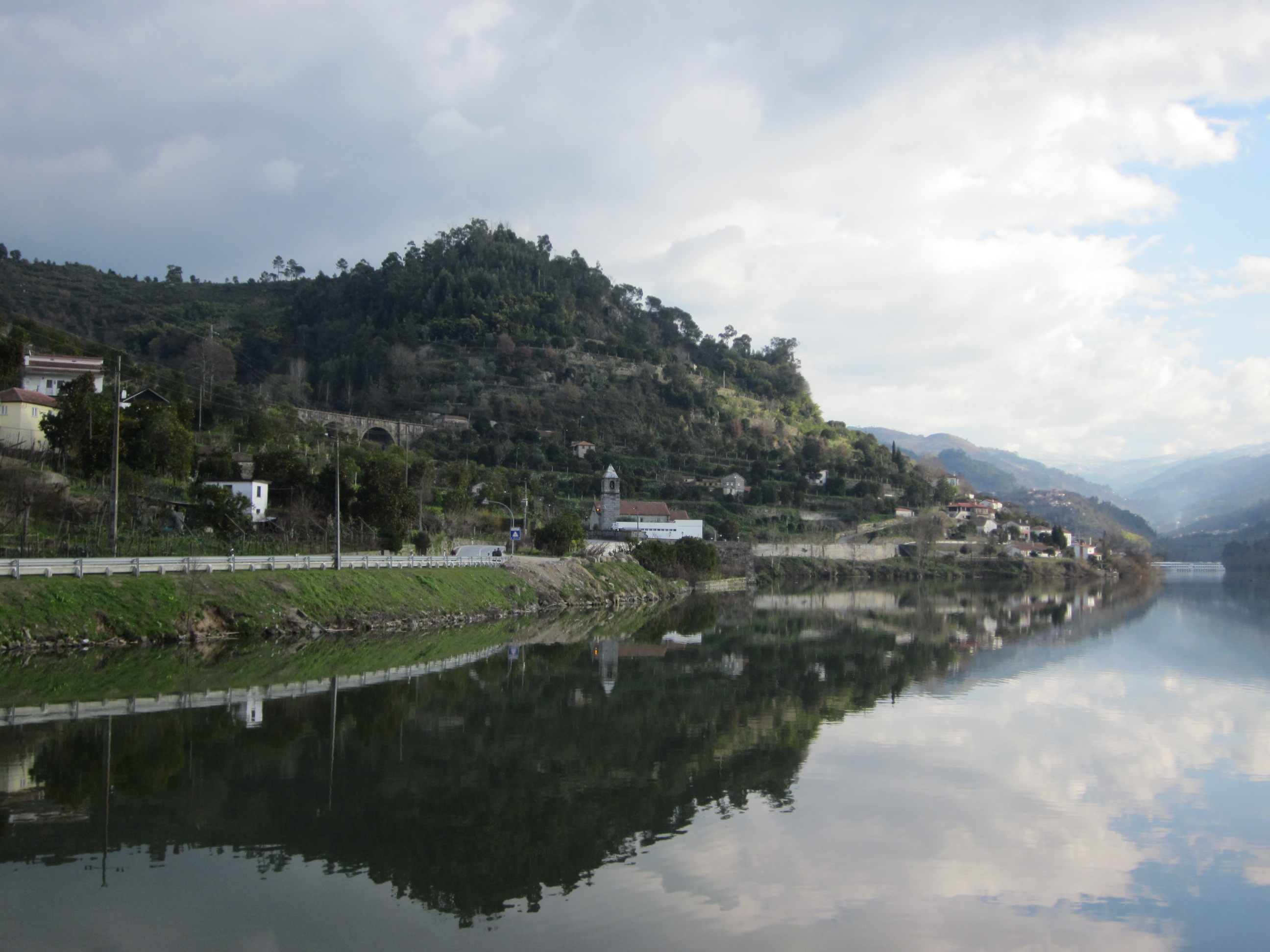 View of Porto Manso, Baião, Portugal.